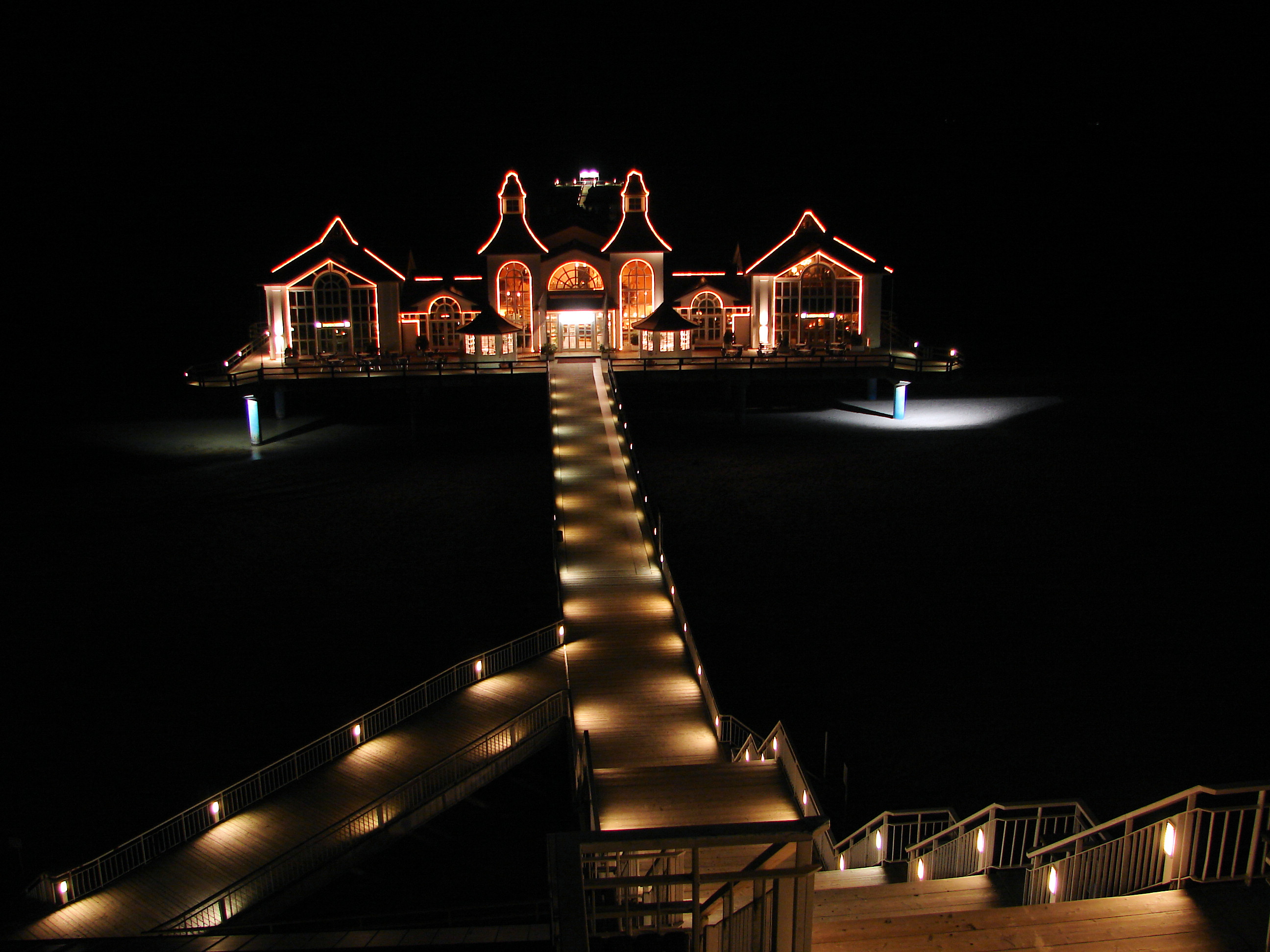 night view of Sellin pier (Rügen)